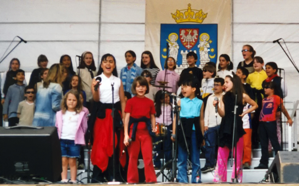 Piccolo Coro Mariele Ventre dell'Antoniano - trials before the concert in Poznań (Poland), late June, 2001. The picture was taken by myself !